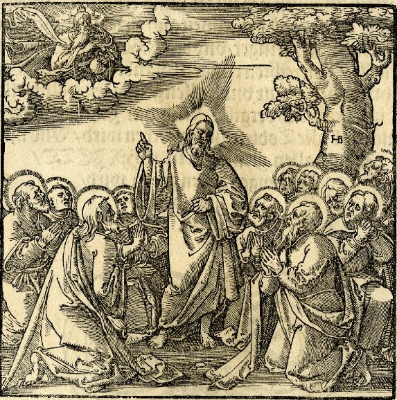 Woodcut by Hans Brosamer of Christ teaching the disciples the Lord's Prayer from the 1550 Frankfurt edition of the Small Catechism of Martin Luther, cropped